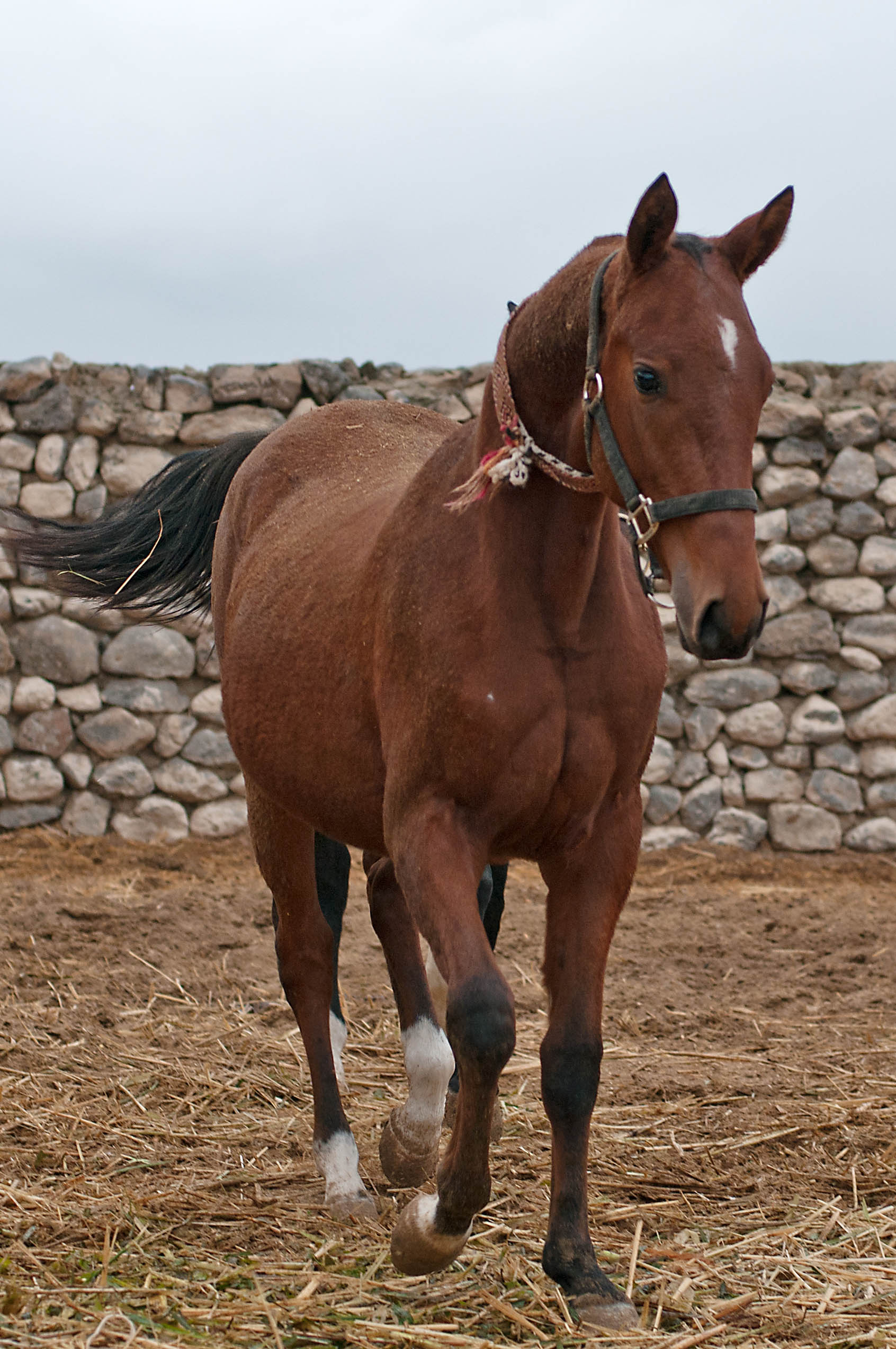 a wonderful visit to an Akhal-Teke studfarm in the mountains of Turkmenistan